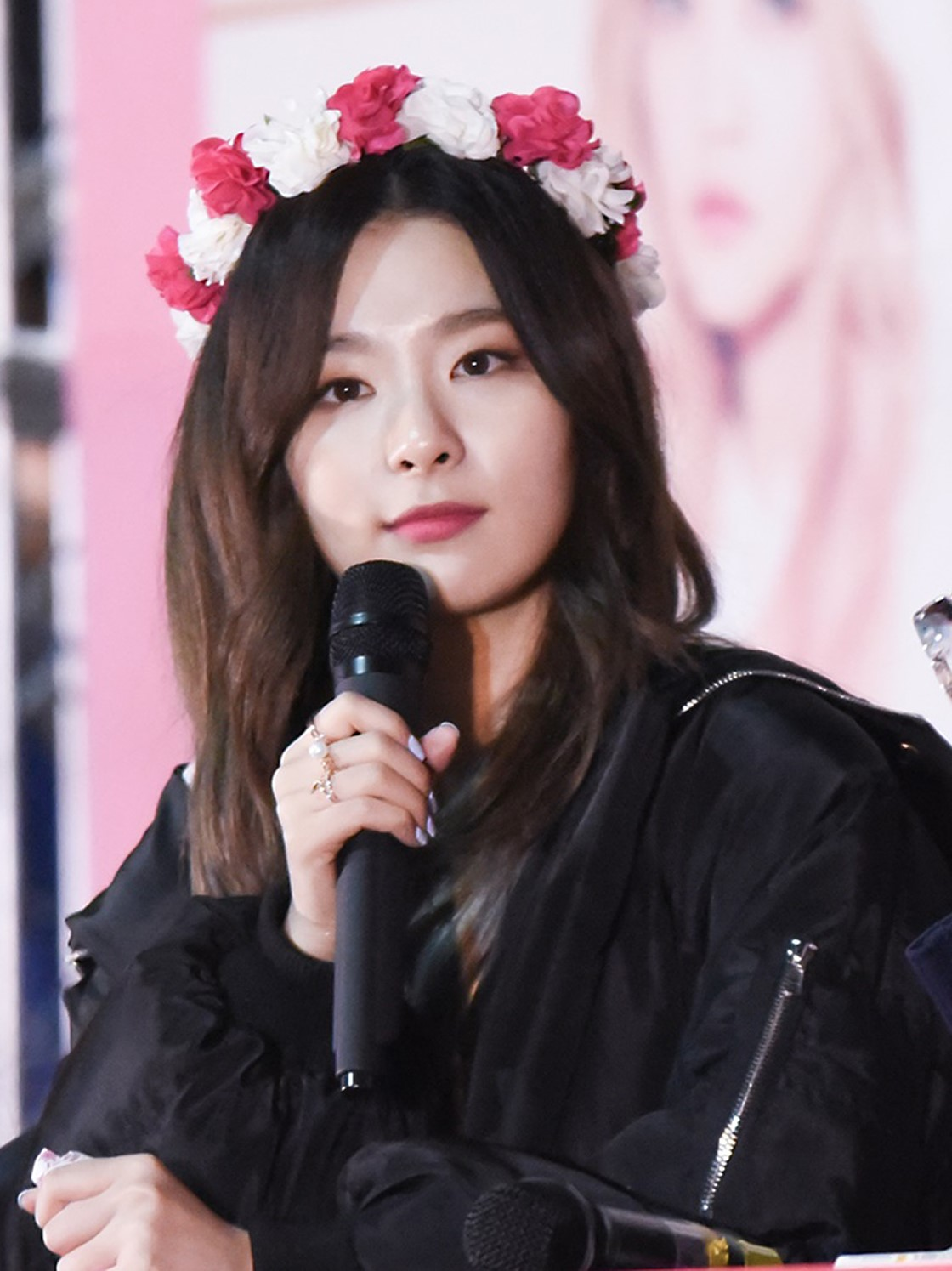 Kang Seul-gi at a fanmeet in Incheon on March 19, 2016.